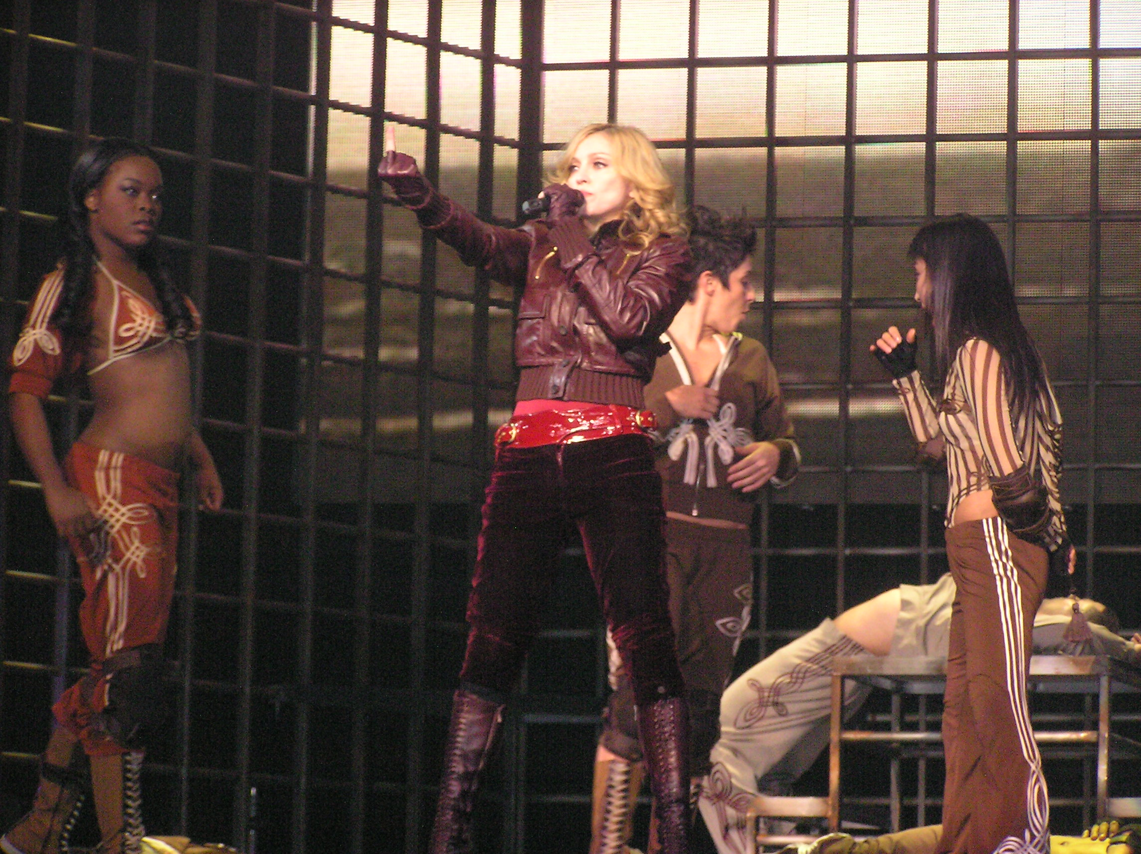 Madonna concert in Fresno